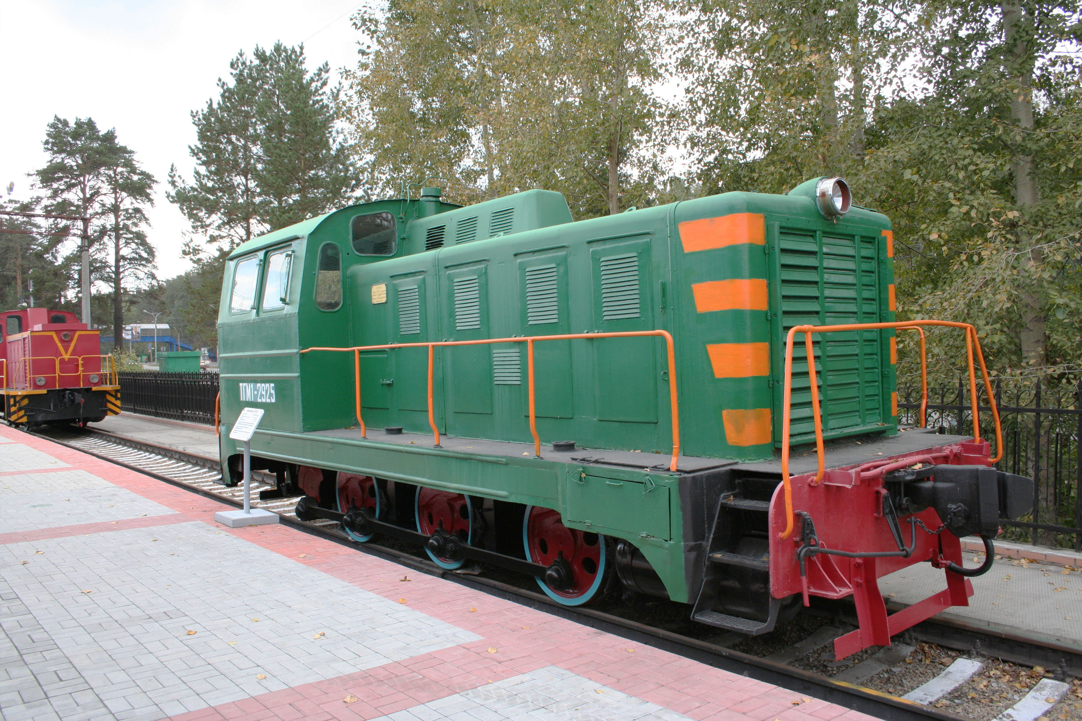 Diesel locomotive ТГМ1 №2925 in Novosibirsk Railway Museum